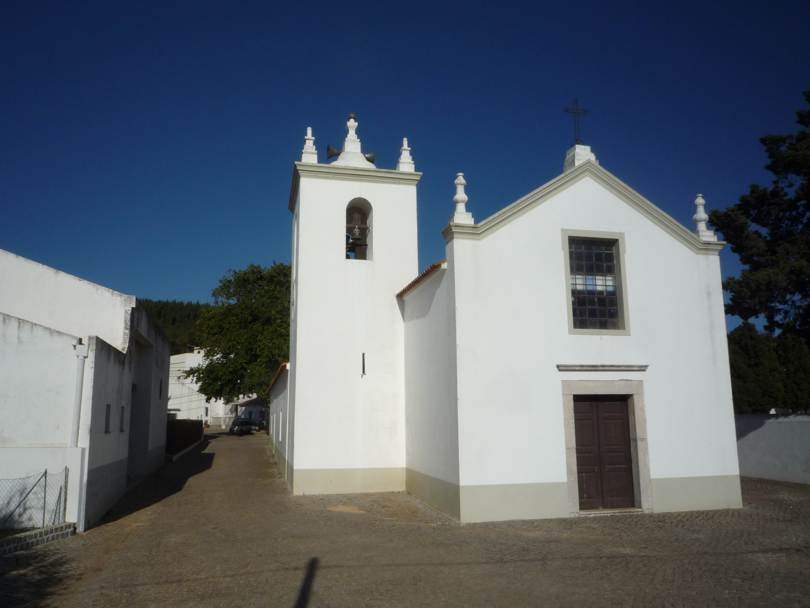 The Church of Our Lady of the Incarnation in Marmelete, Monchique, Algarve. Diocesan website. Another image.